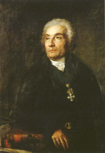 Portrait of Joseph de Maistre